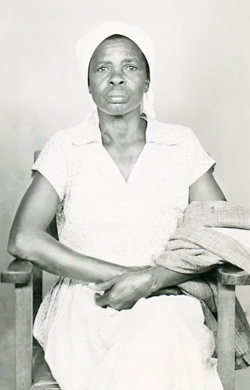 Evangeline Olukhanya Ohana Analo-Oriedo, wife of Esau Khamati Oriedo, 1952 at Nairobi, Kenya. Period during her campaign to free her husband, Esau Oriedo, and other anti-colonial activist from detention by the British colonial government of Kenya Colony